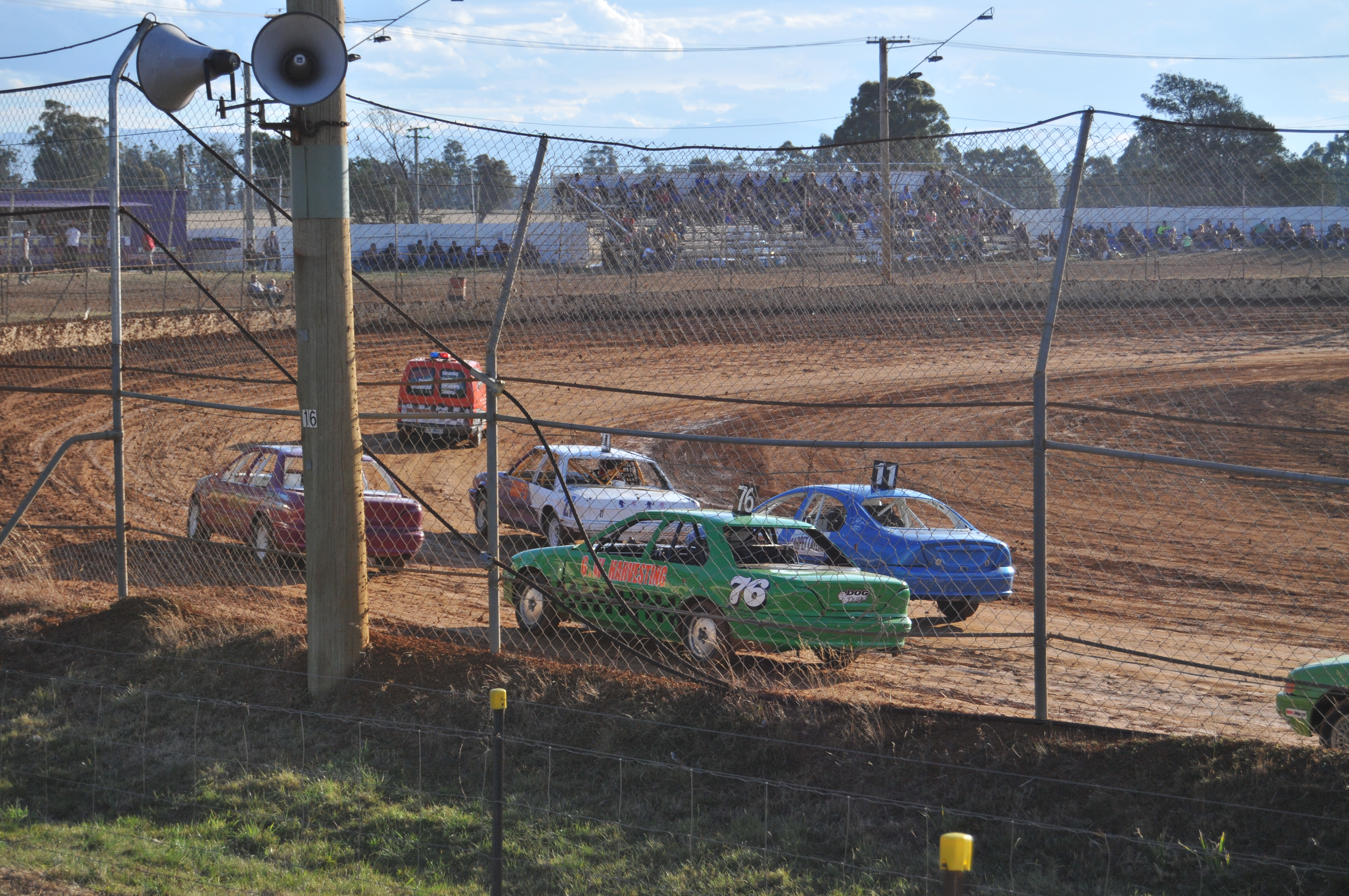 Stock car racing on the Speedyway, Carrick, Tasmania